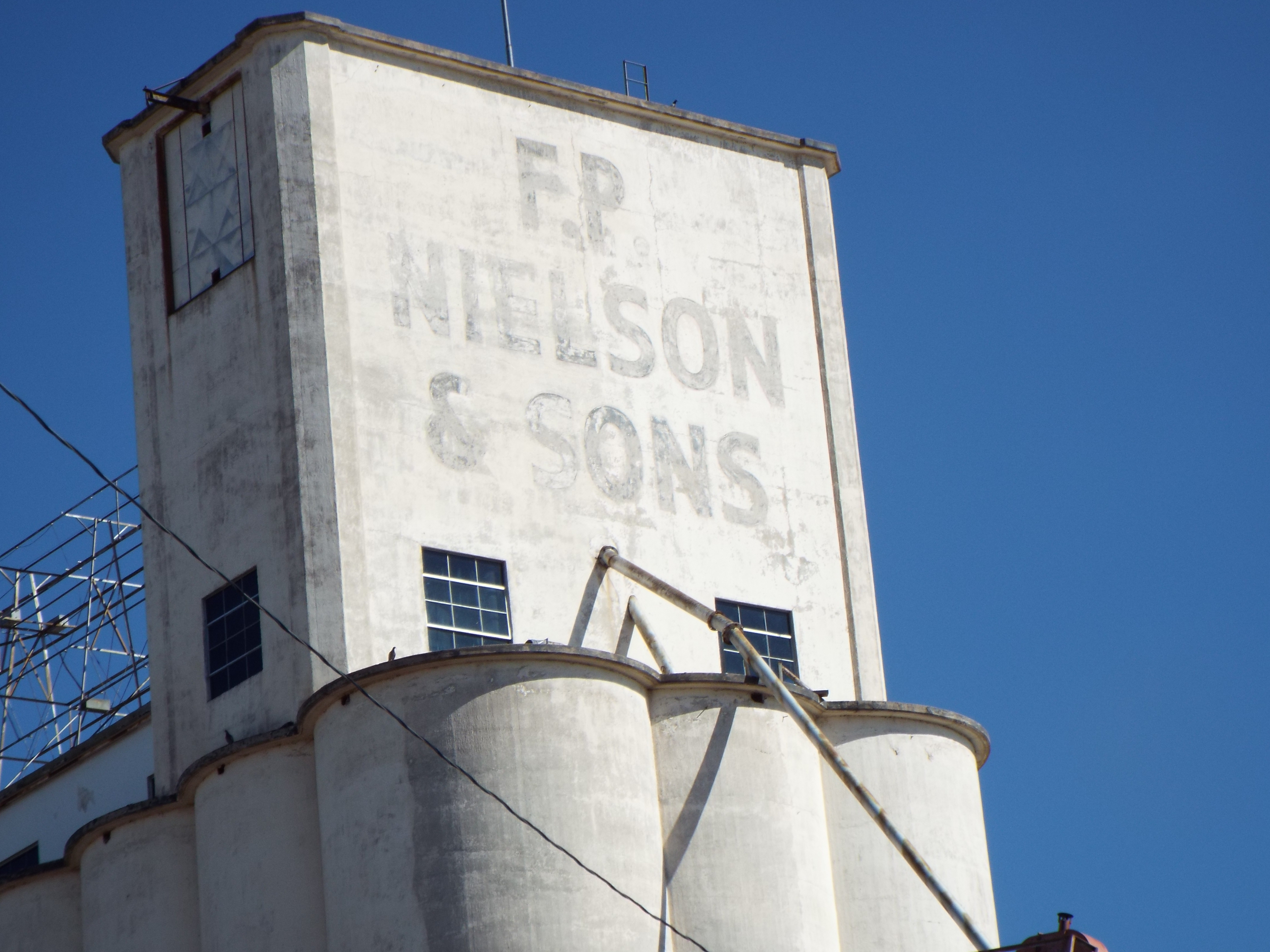 Grain Elevator built in 1936 in Mesa, Az.